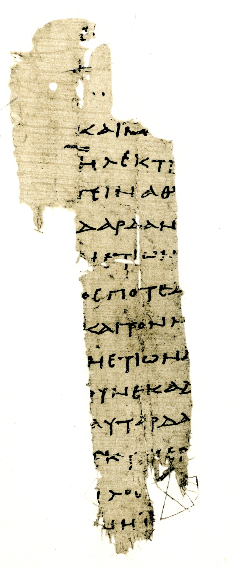 P.Oxy. XI 1359 fr. 2 = Catalogue of Women fr. 177 Merkelbach & West (3rd c. AD, Oxyrhynchus)